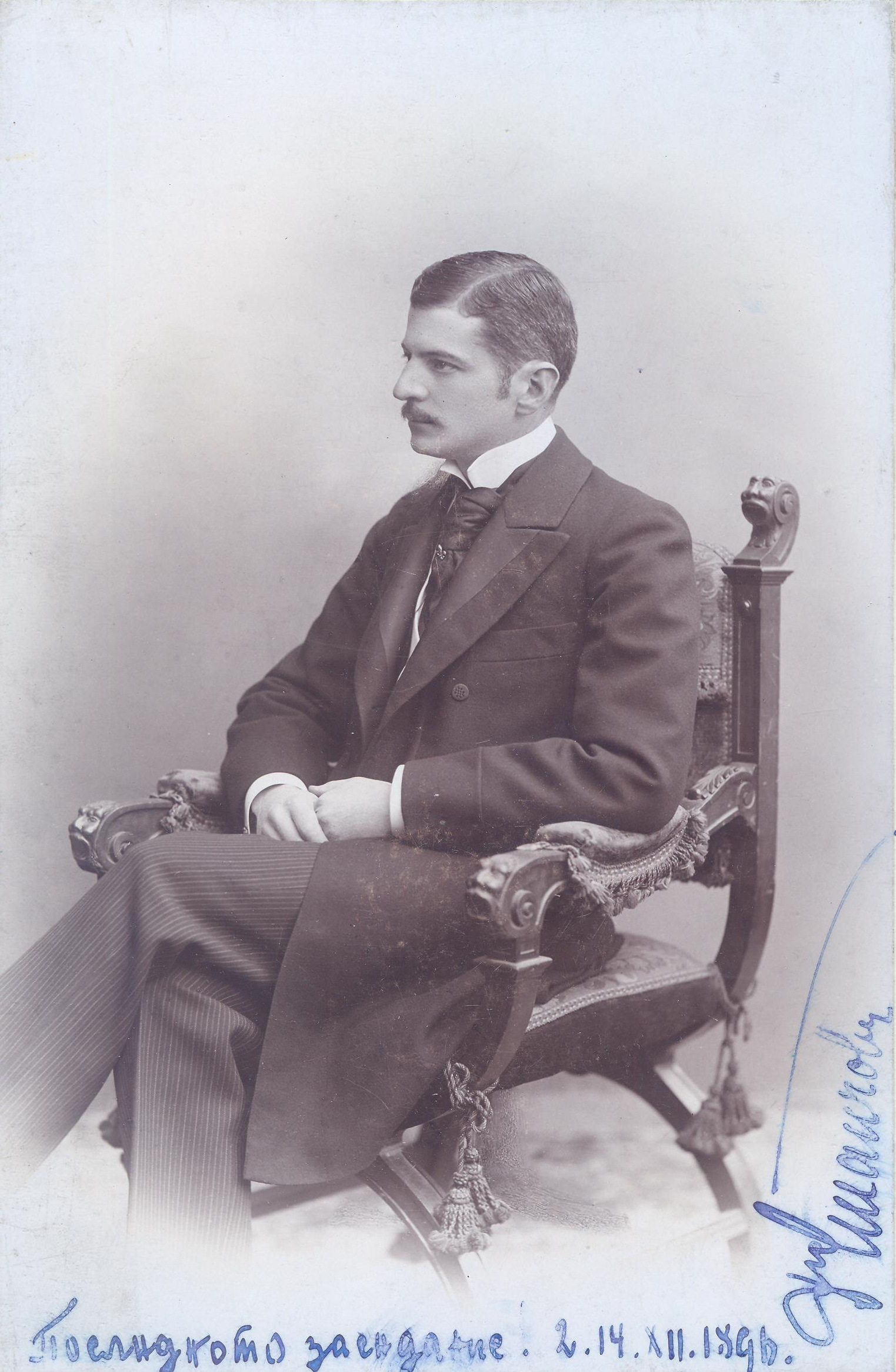 Bulgarian diplomat and politician Dimitar Stanchov, 1896